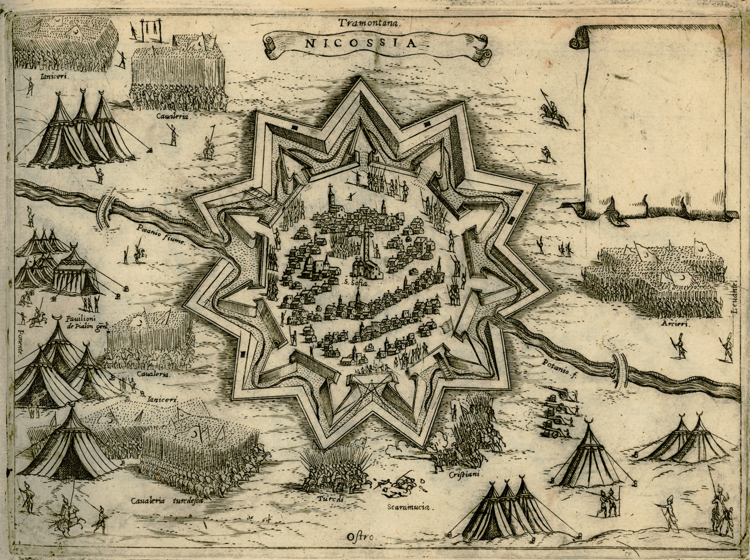 Giovanni Francesco Camocio. Isole famose porti, fortezze, e terre maritime sottoposte alla Ser.ma Sig.ria di Venetia, ad altri Principi Christiani, et al Sig.or Turco, Venice, alla libraria del segno di S.Marco (1574)